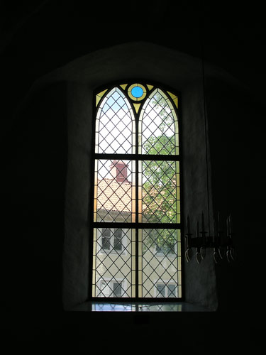 Drothem church, Söderköping, Diocese of Linköping. Sweden. Church window.